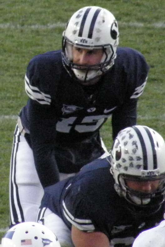 Max Hall BYU Senior Quarterback vs Air Force 2009.